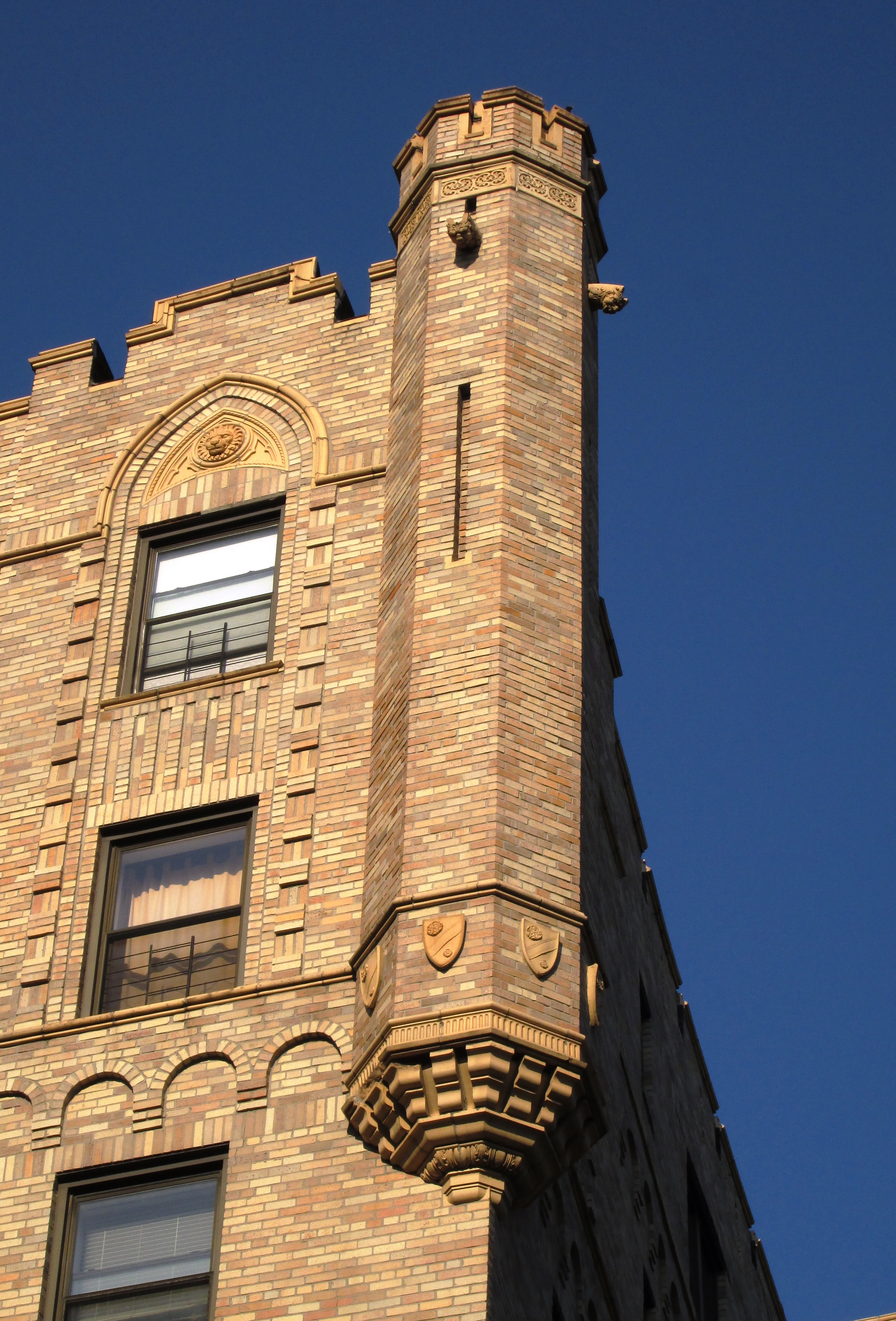 105-195 Cabrini Boulevard at the corner of West 181st Street, turret. Built in 1920. (Source: NYC GIS map)